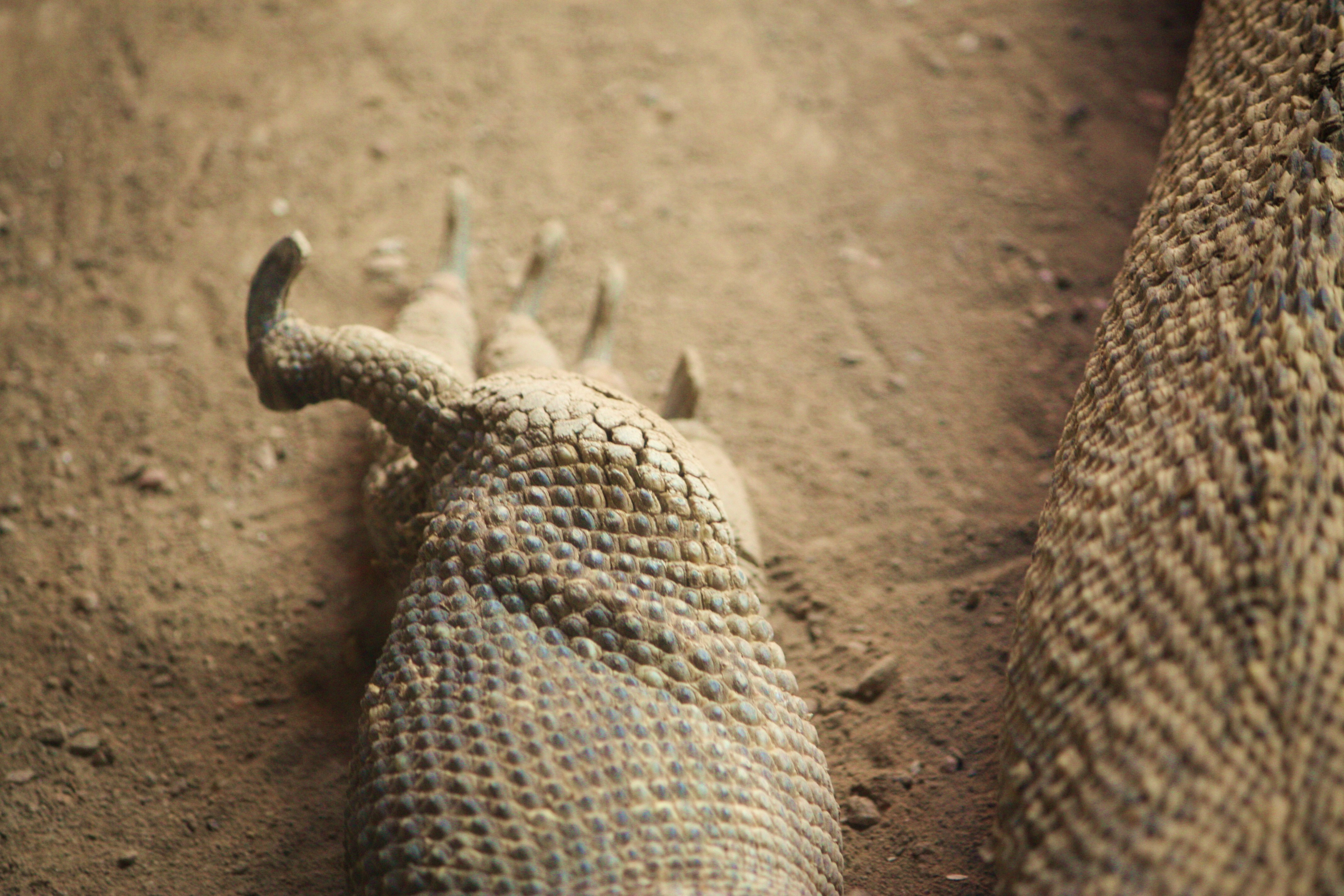 Komodo Dragon (Varanus komodoensis); closeup of foot. Denver Zoo, Denver, Colorado.